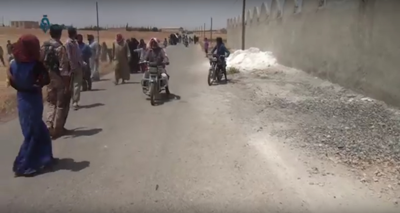 Manbij residents on the move, 20 June 2016, away from the battle zone in and around Manbij. Camera is looking towards Manbij, from the directon of Abu Qalqal SE of the city.